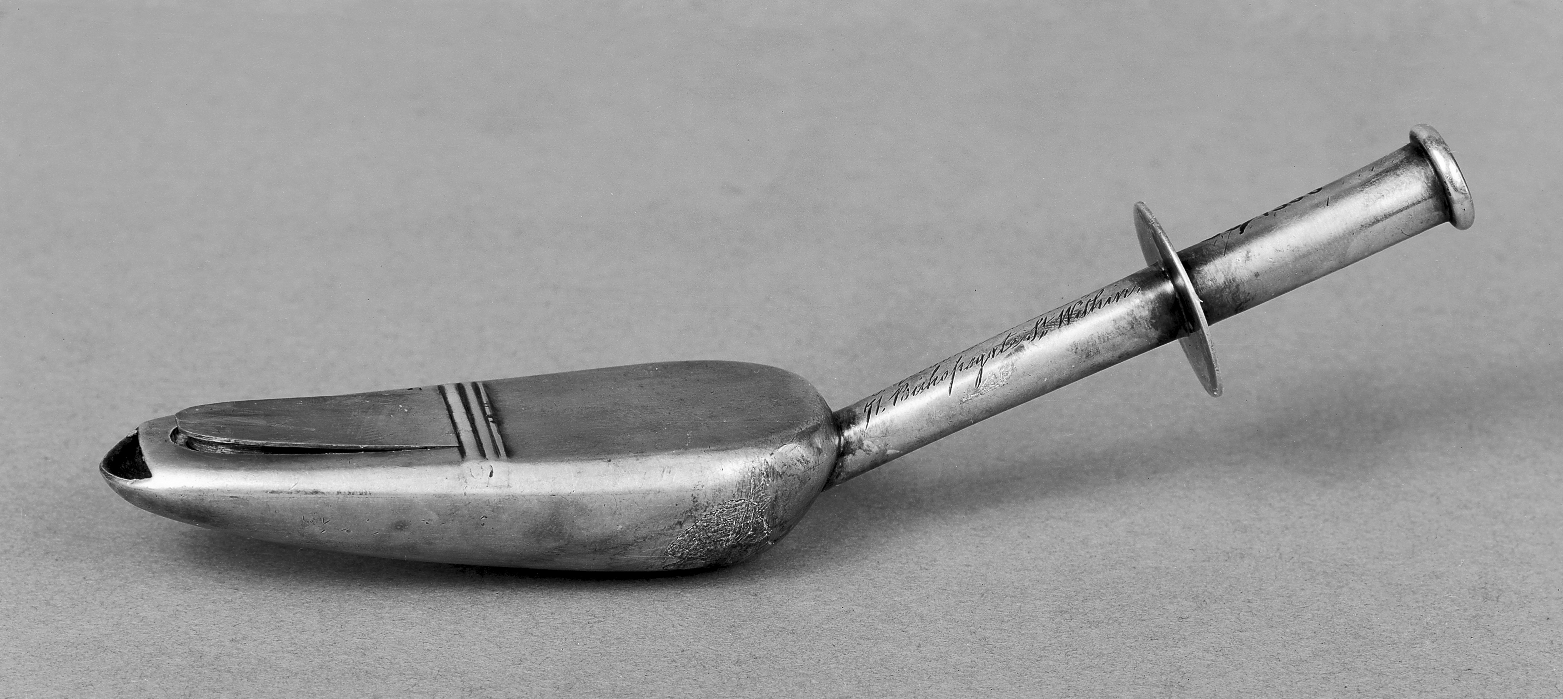 Silver castor oil spoon. Signed C. Gibson, Inventor, 71 Bishopsgate St. Within. Wellcome Images